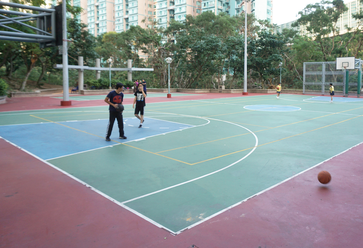 Lee On Estate in Wu Kai Sha, Hong Kong.